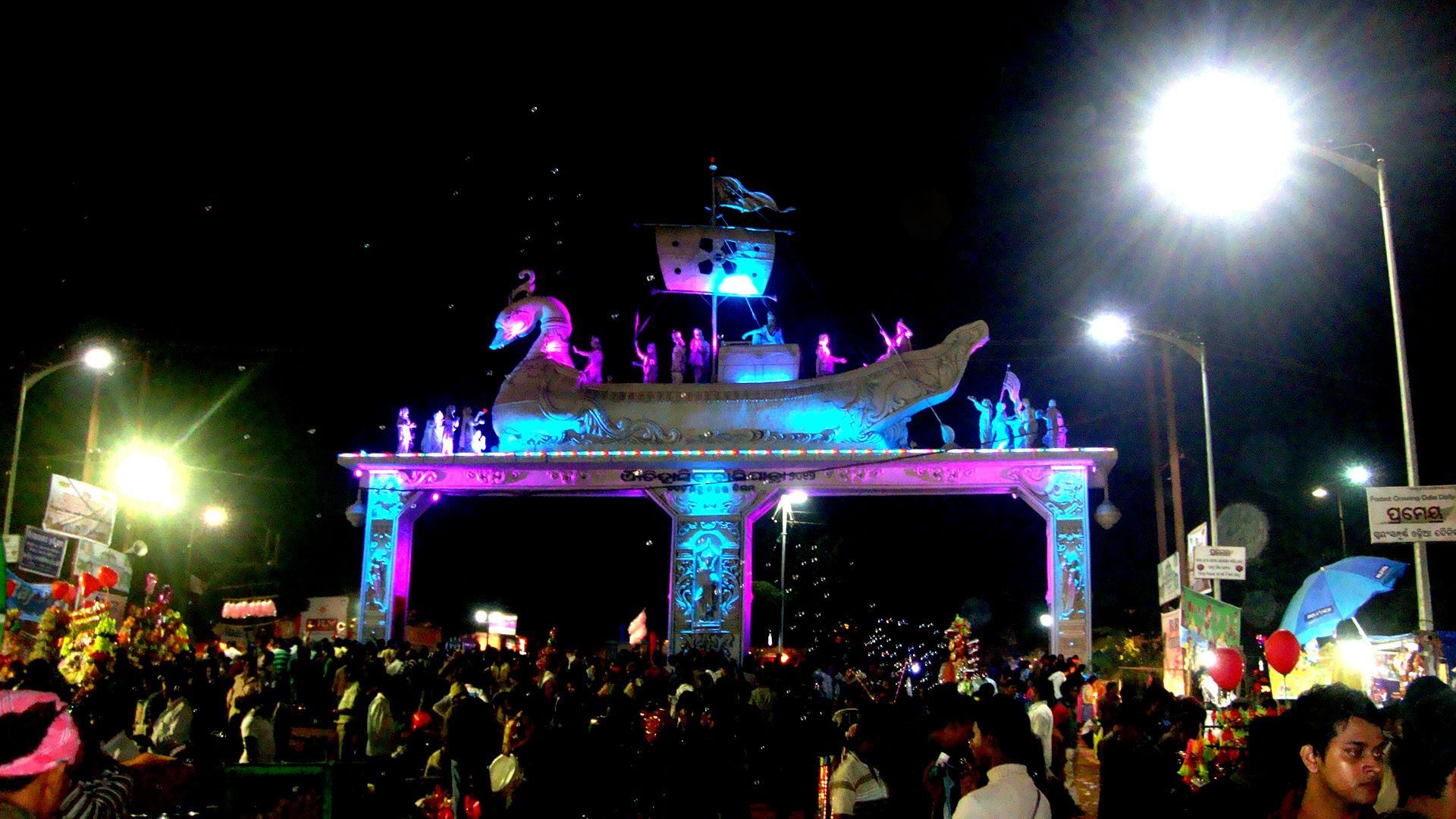 balijatra festival in cuttackଓଡ଼ିଆ: ବାଲିଯାତ୍ରା